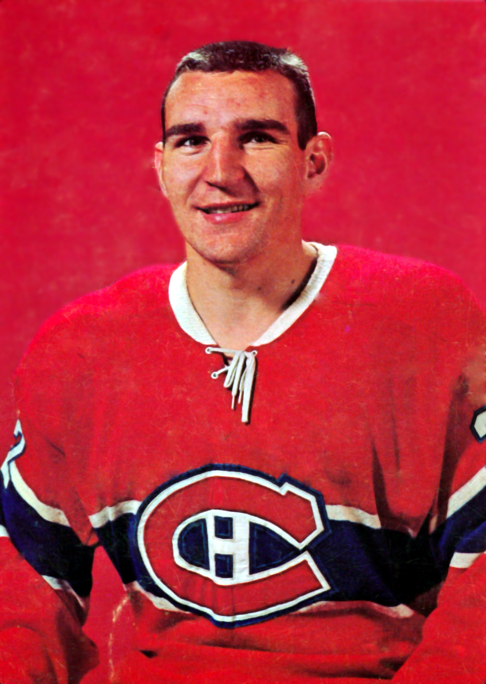 Photo of John Ferguson as a member of the Montreal Canadiens. These cards were printed on the backs of Chex cereal boxes in the US and Canada from 1963 to 1965. Those collecting the cards cut them from the back of the boxes. Ferguson's card at PSA.